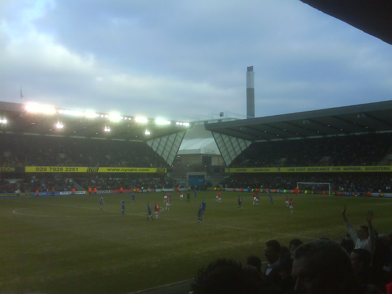 Millwall 4 Charlton Athletic 0, in the 2009/10 season.